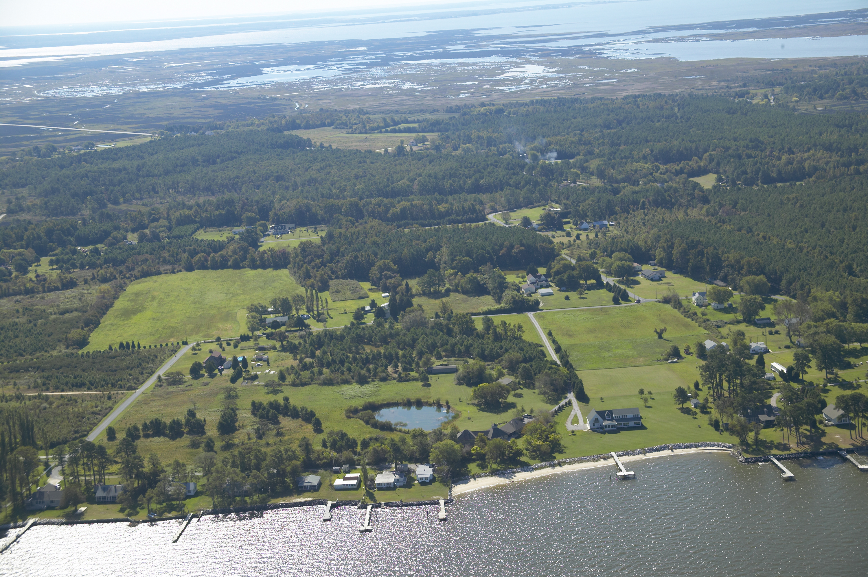 From over the Wicomico River an aerial view of Dames Quarter located on Maryland's Eastern Shore. In the foreground is a residential area. The middle is part of the 13000 acre Deal Island Wildlife Management Area. The back is where the Manokin RIver meets the open waters of the Chesapeake Bay.